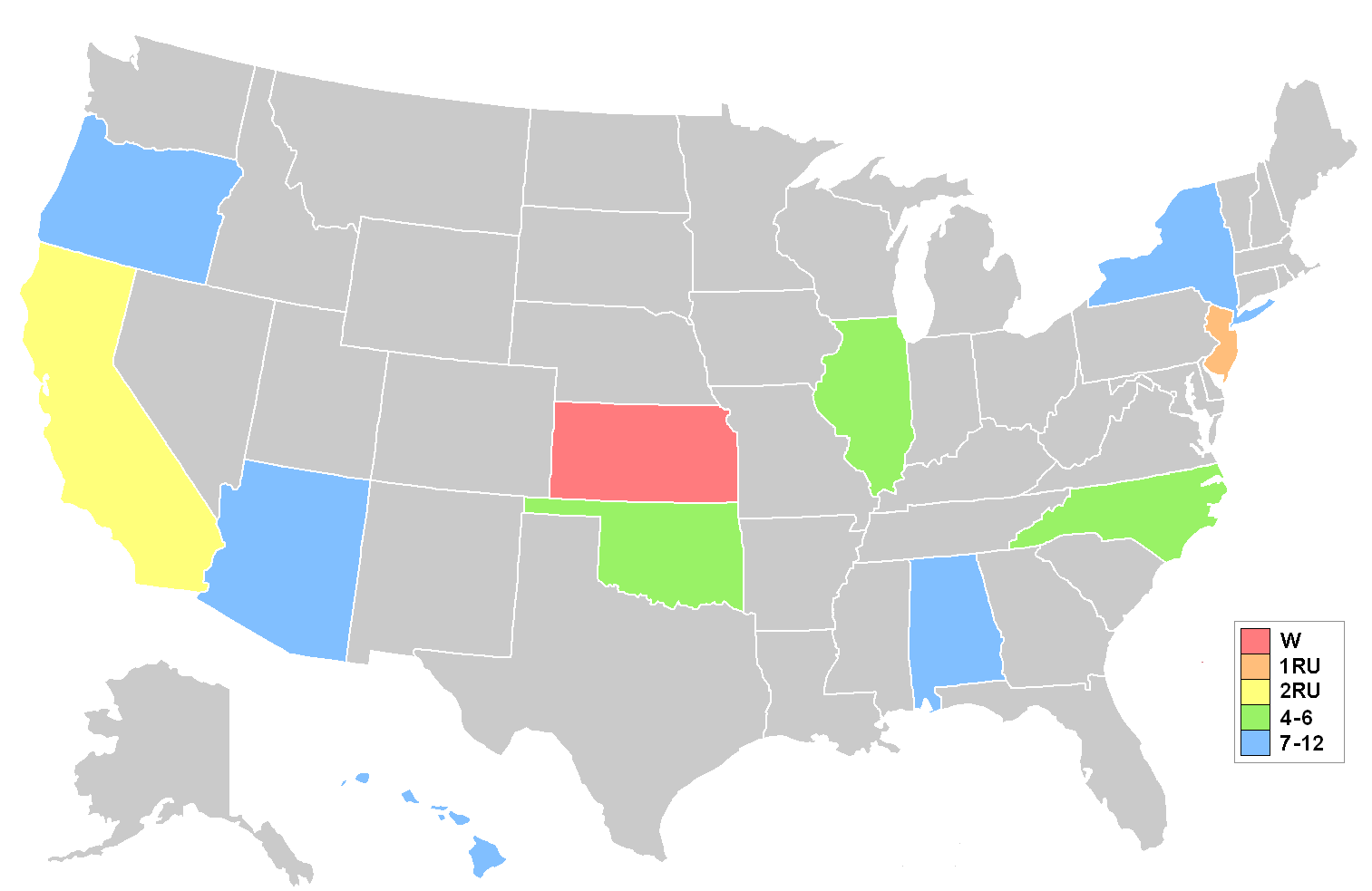 Map showing placements at the Miss USA 1991 pageant. Key on graphic shows colour coding for break down of placements.